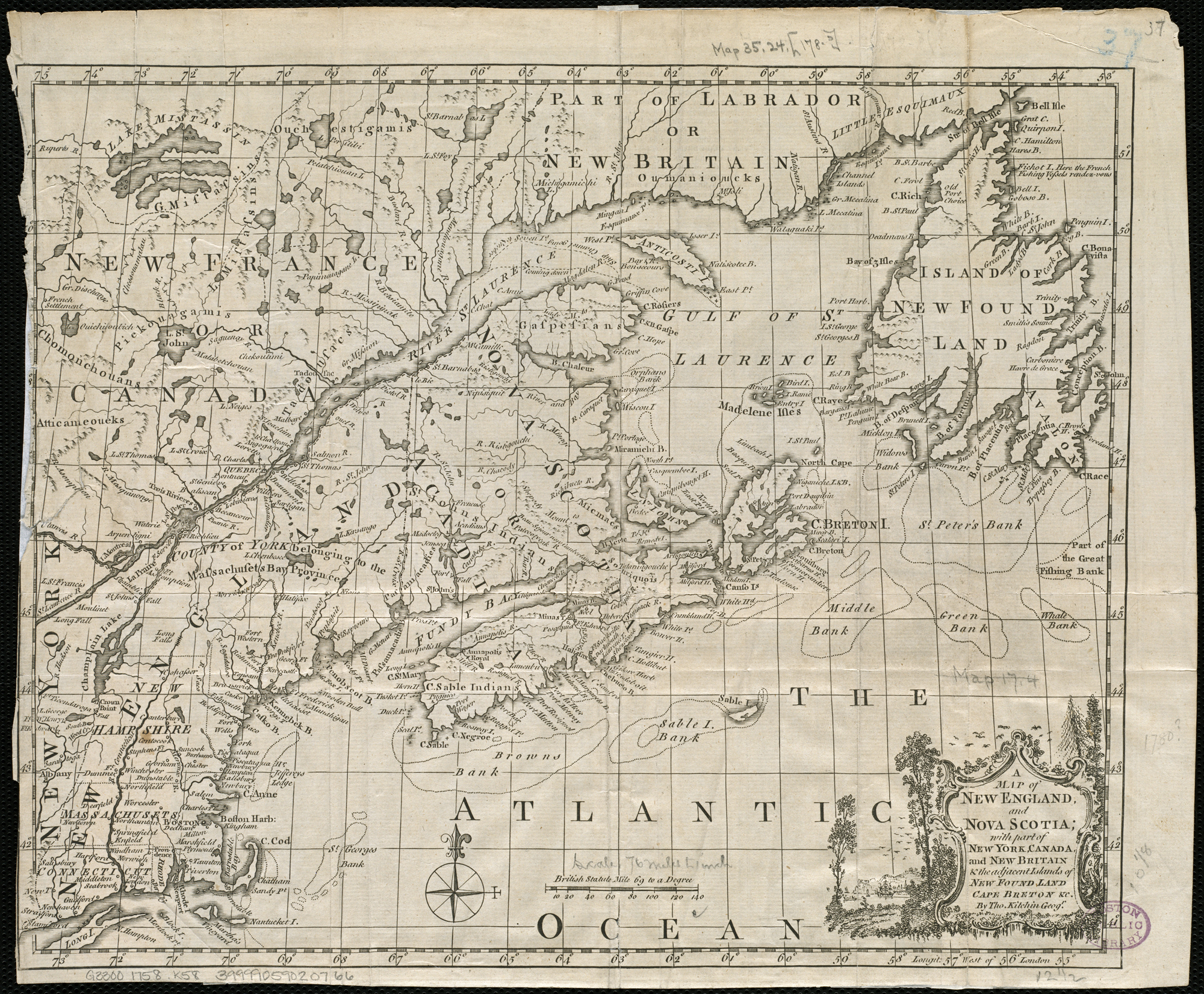 Zoom into this map at . Author: Kitchin, Thomas Date: 1758 Location: Canada, Eastern, Cape Breton Island (N.S.), Labrador, New England, New Foundland, North America, Nova Scotia Dimension: 26x33cm Scale: ca. 1:4,800,000 Call Number: G3300 1758 .K58